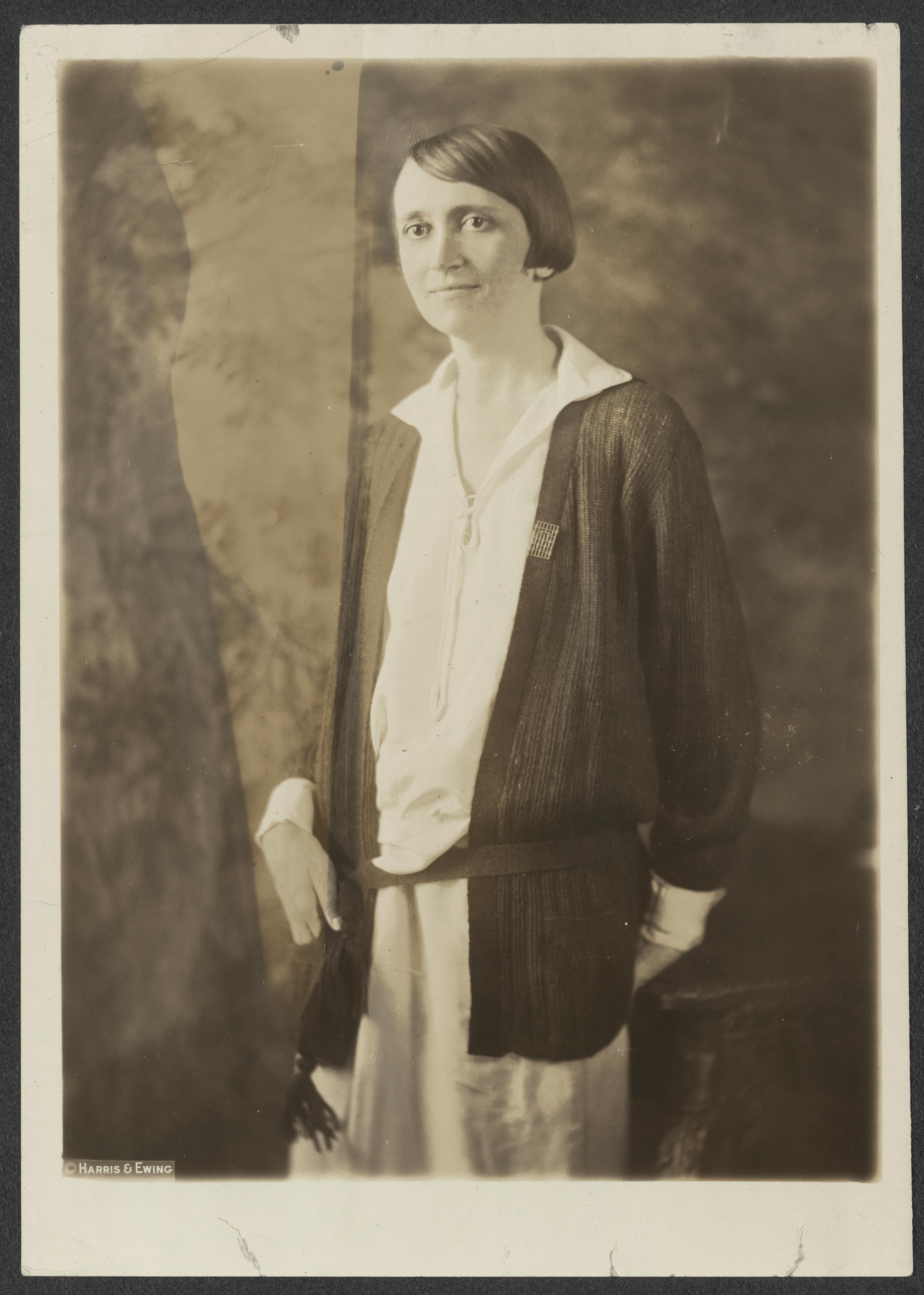 Three-quarter-length portrait of Sue Shelton White, standing, leaning against table with decorative carved legs, left hand resting on table behind her, with right hand in sweater pocket, wearing broad-collared white blouse with string tie and skirt, and dark ribbed belted sweater with suffrage prisoner pin affixed, bobbed hair. Decorative background.